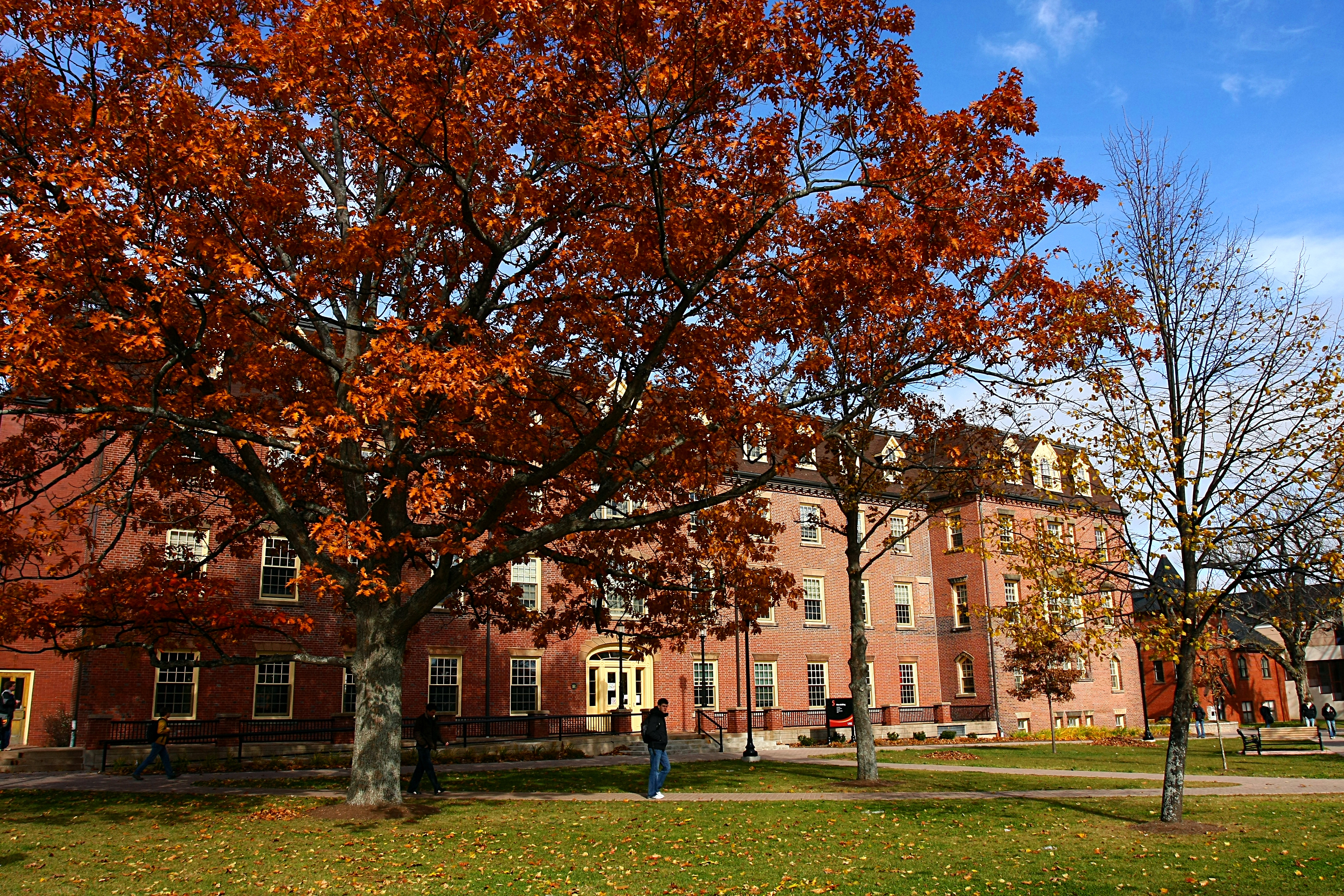 at UPEI. That tree was pretty spectacular that day. Alas, all leaves are gone now, and the colour has left PEI until May... :(